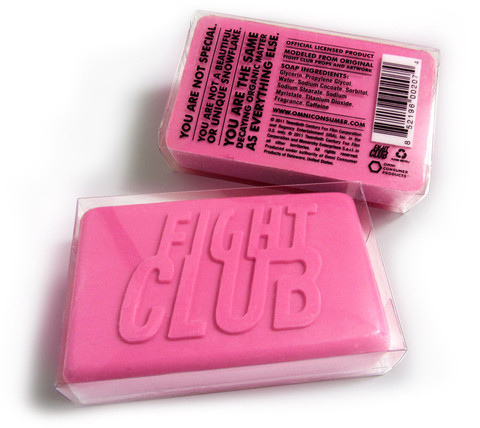 “You are not special. You're not a beautiful and unique snowflake. You're the same decaying organic matter as everything else.” Soap bar by Omni Consumer Products modeled from original Fight Club props and artwork.